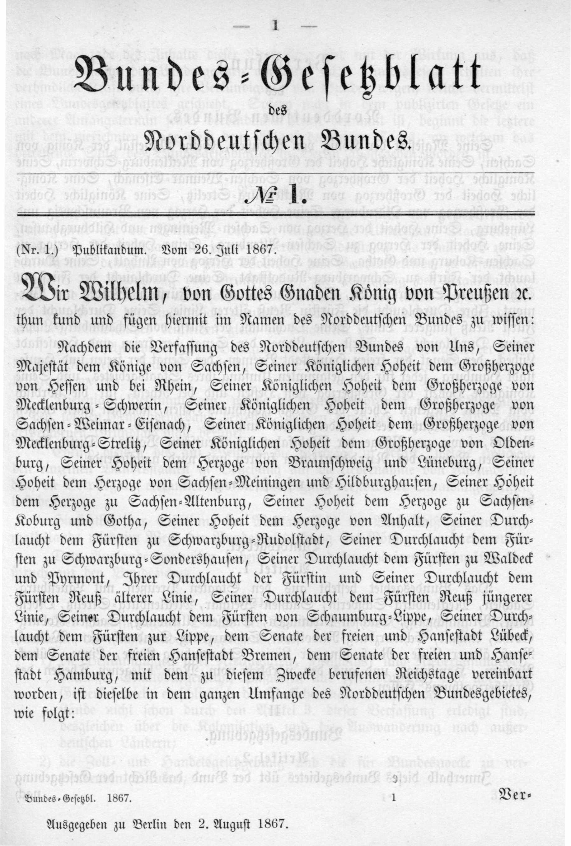 Scan from the Federal Law Gazette of the Northern-German Federation, 1867, copy-print 1891